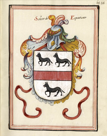 coat of arms of the lord of Esparza